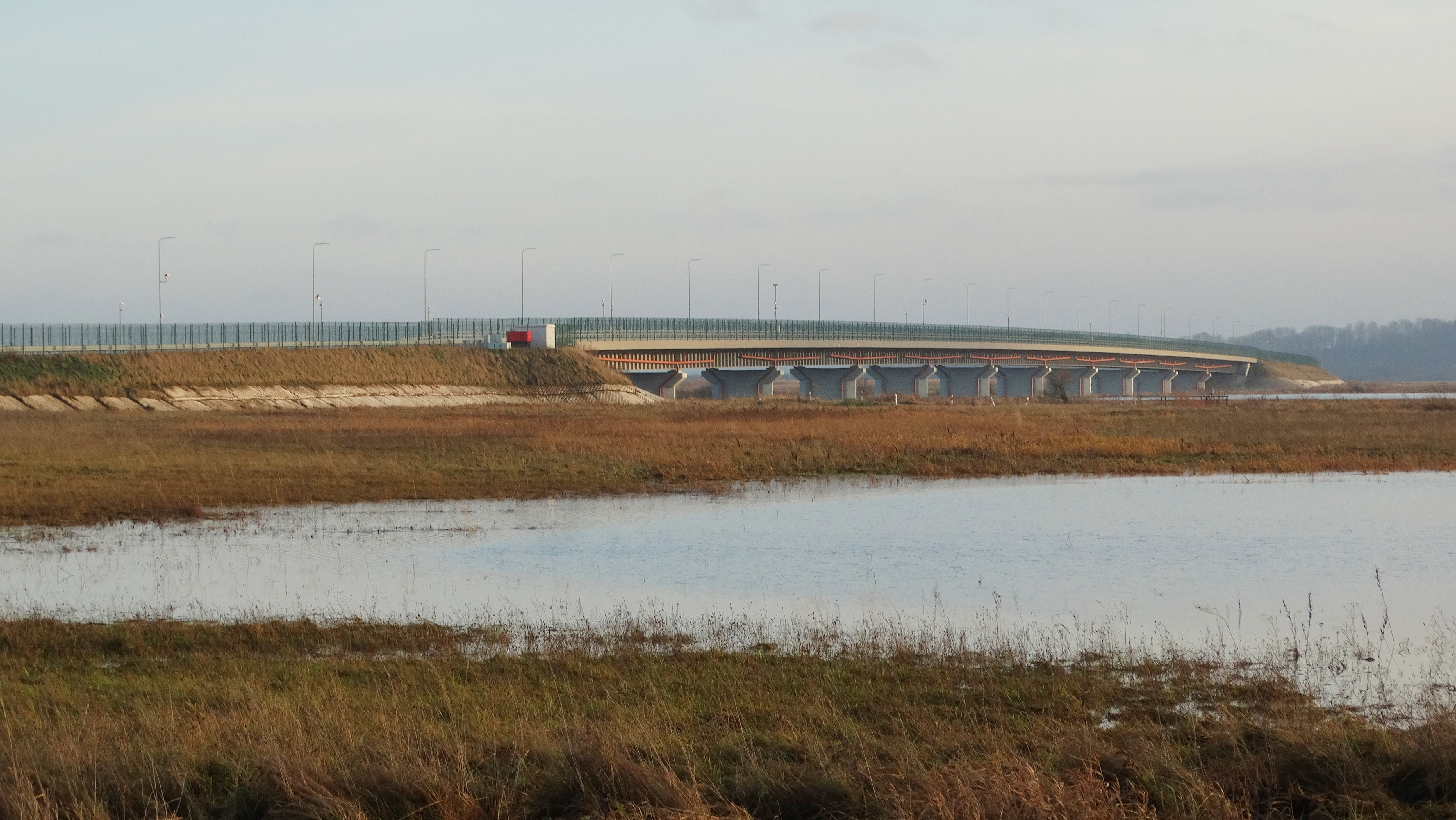 Bypass road and 477 m long bridge, Panemunė, Pagėgiai Municipality, Lithuania